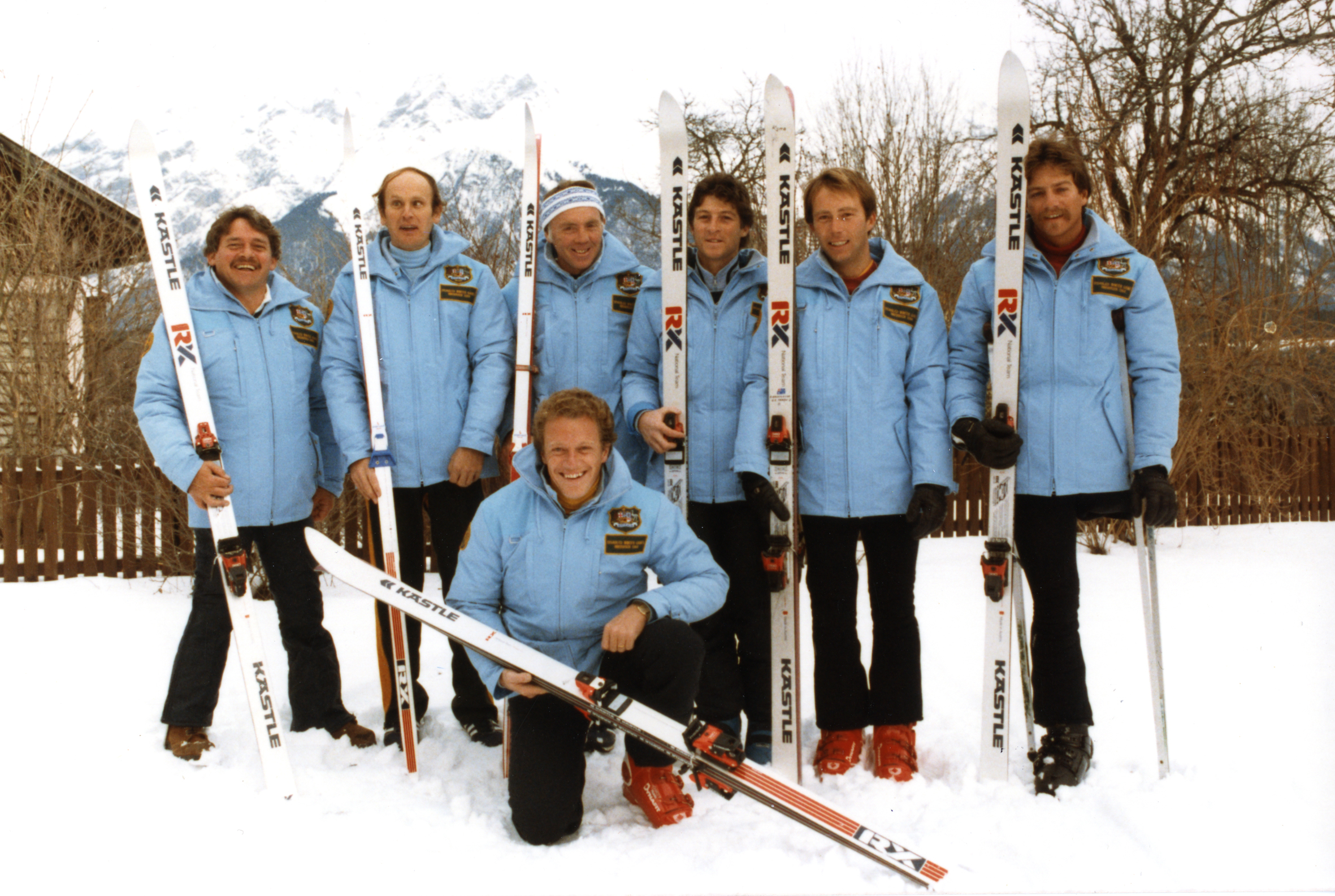 The Australian Paralympic Team and Coach at the 1984 Innsbruck Winter Games: L-R: Ron Finneran, Rodney Mill, Mills' guide, James Milner (coach), Kyrra Grunnsund, Andy Temple Bruce Abele (Coach) front.